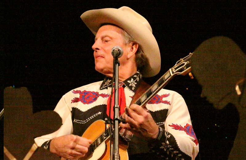 Ranger Doug (Douglas B. Green) performs at the Poncan Theater in Ponca City, Oklahoma on November 7, 2008. Any use of this photo must include a photo attribution to Hugh Pickens and a link to Hugh Pickens.